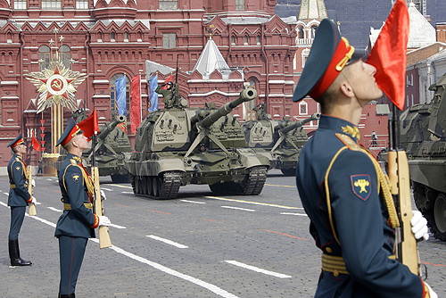 2S19 SPGs during the military parade marking the sixty-third anniversary of Victory in the Great Patriotic War